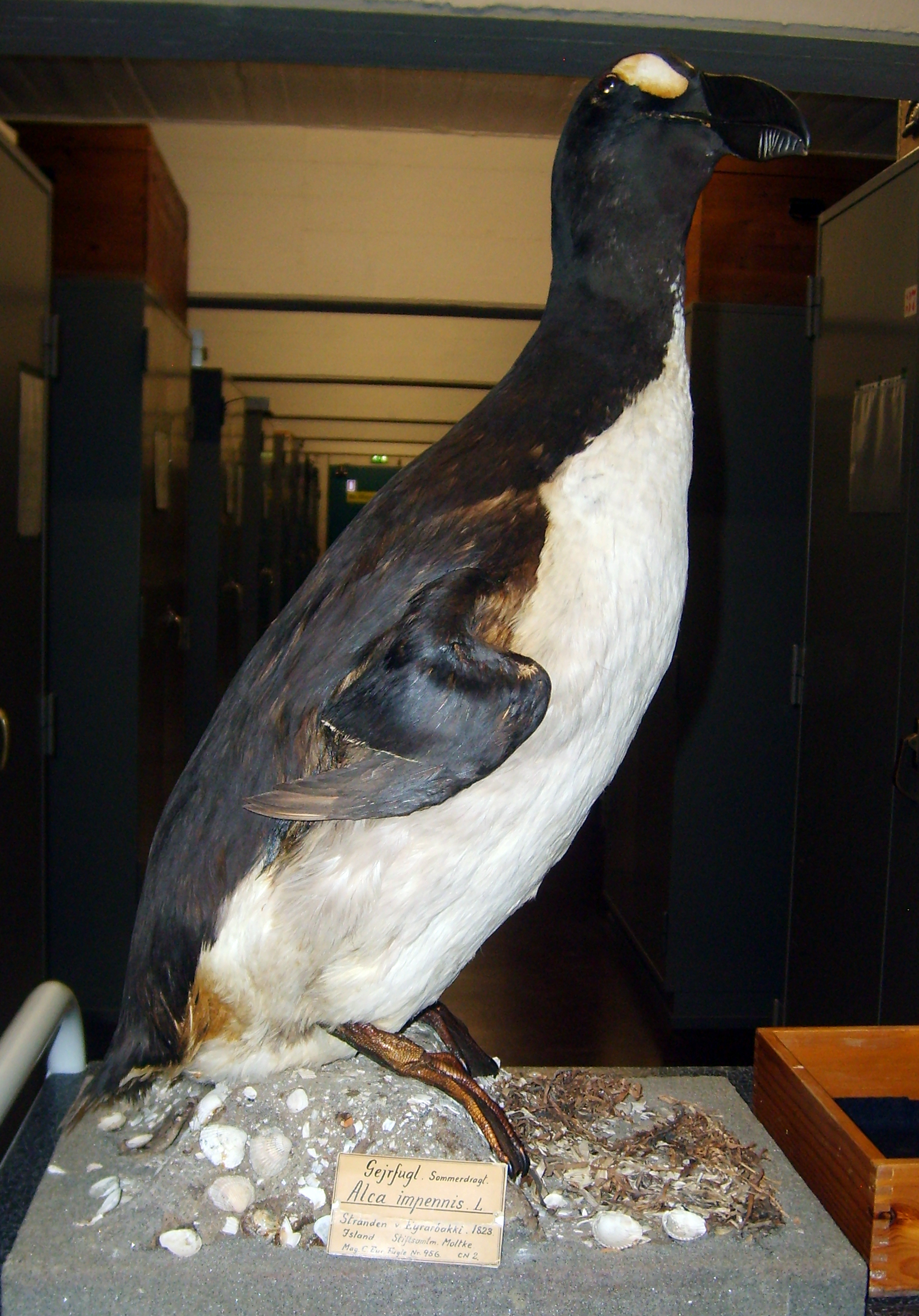 One of two taxidermied great auks (Copenhagen's summer auk, bird no. 23 in Fuller 1999) at the Zoological Museum of Copenhagen.